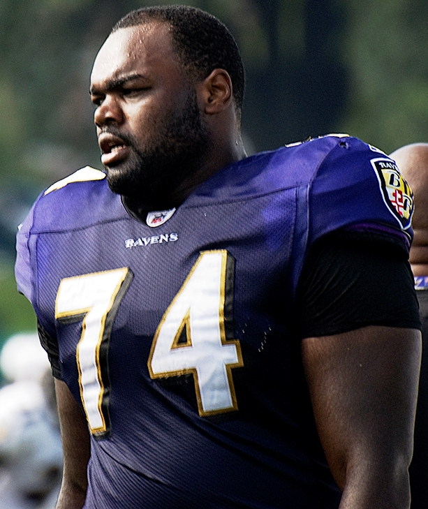 Baltimore Ravens offensive tackle Michael Oher during training camp on August 5, 2009.